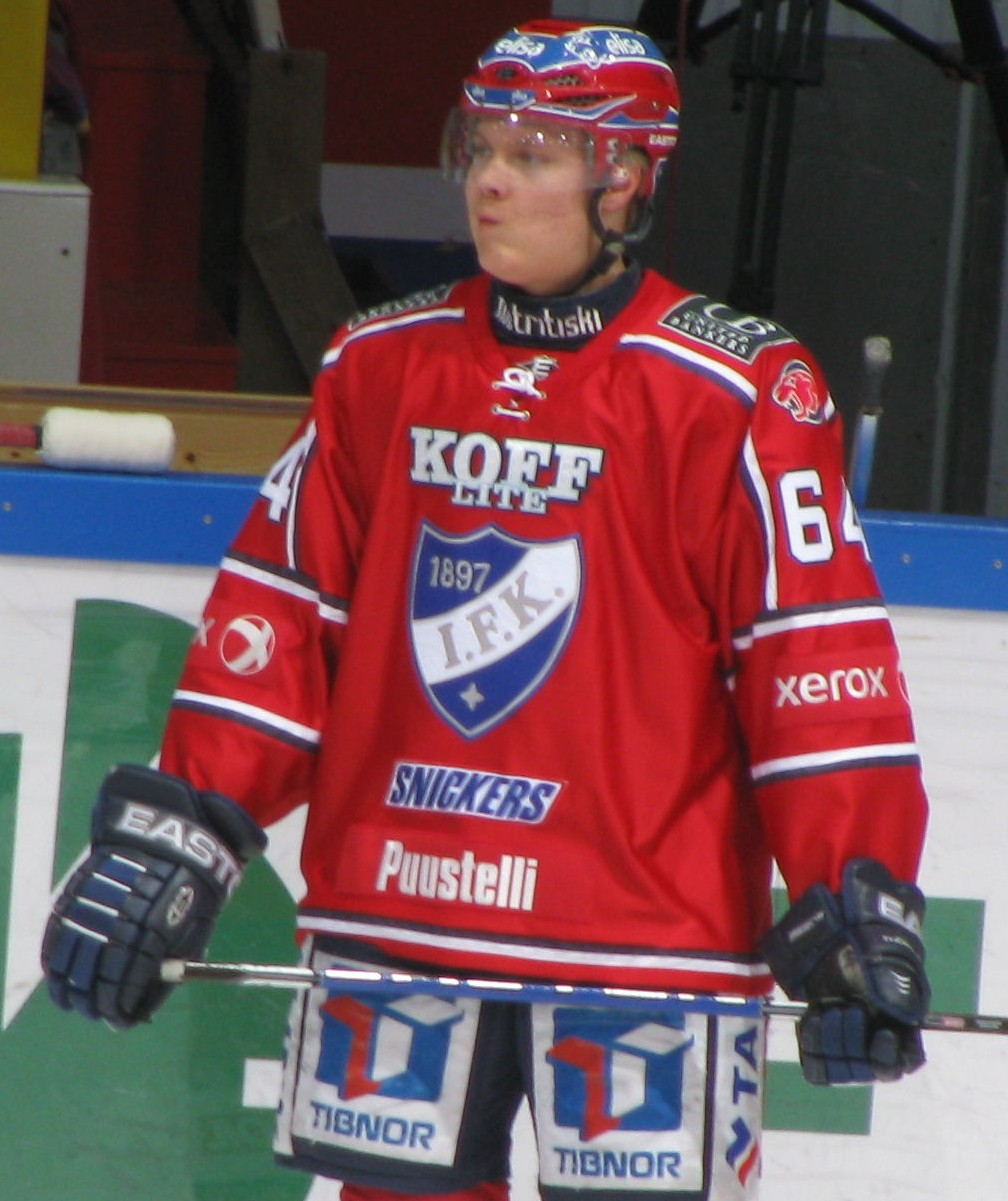 Mikael Granlund (HIFK)